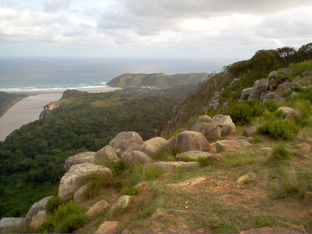 A south easterly shot from Mount Thesiger